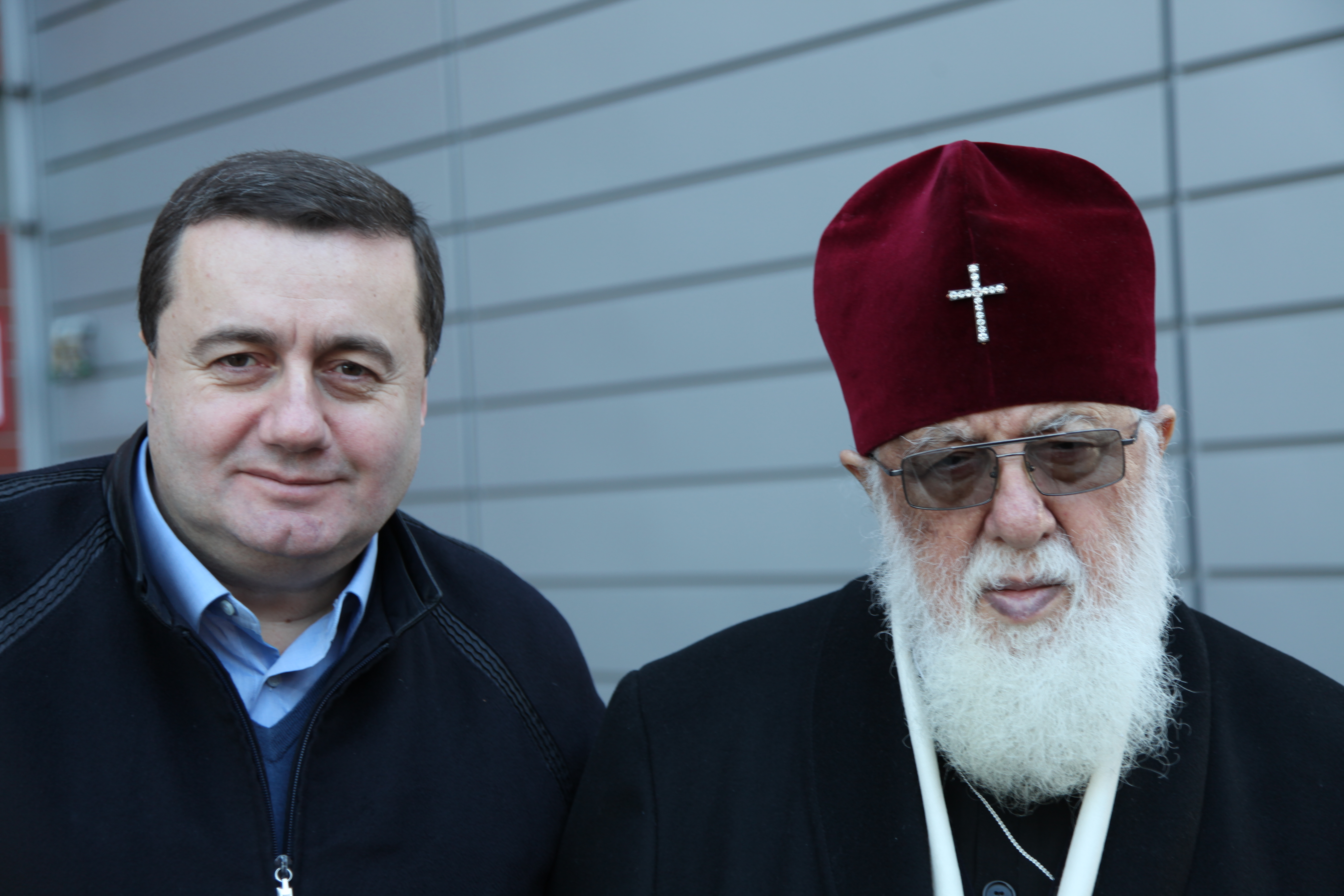 Ivane Chkhartishvili receiving award from Patriarch of Georgia, Ilia II, 2012